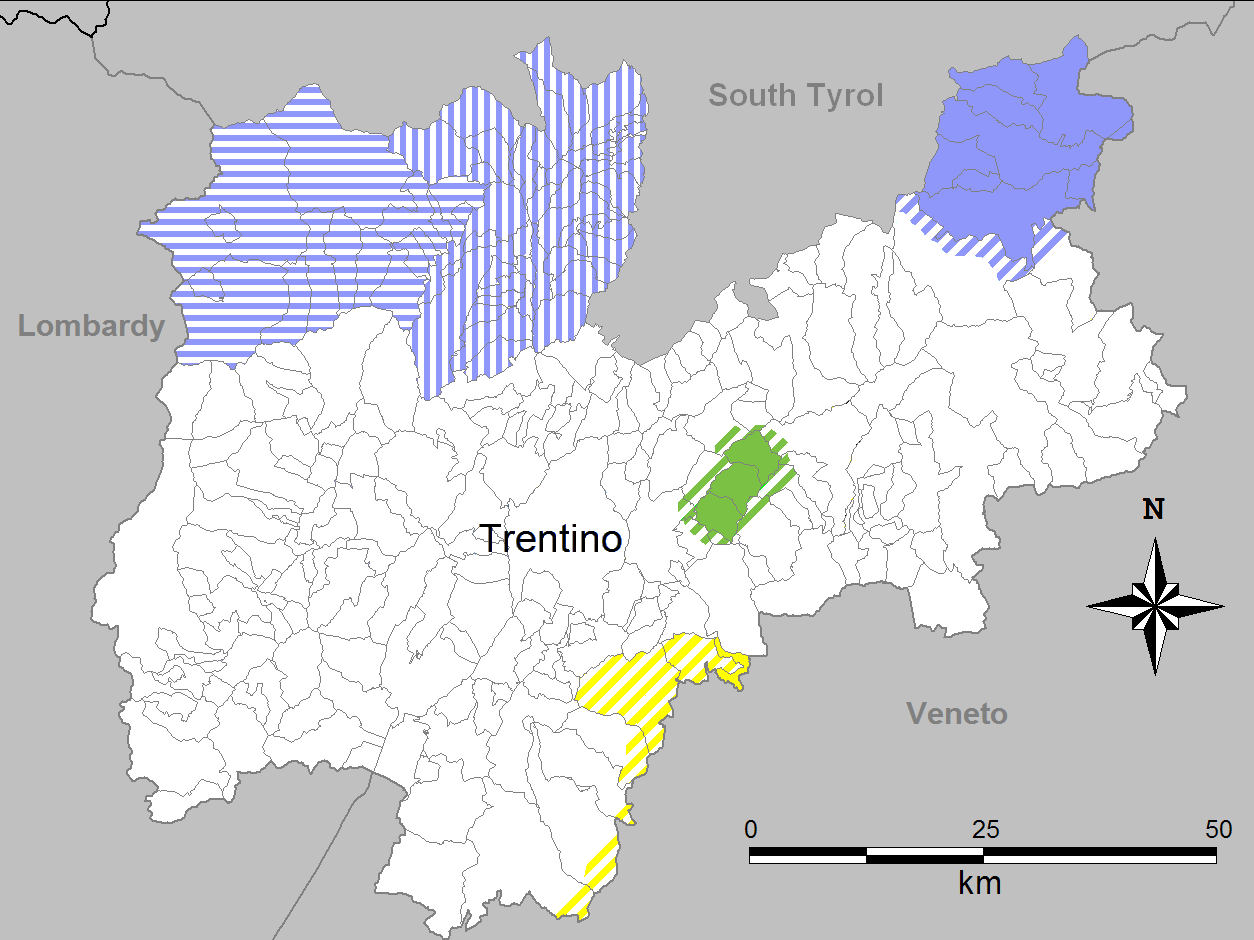 Map of the linguistic minorities in Trentino, northern Italy, as of the census of 2001. The Italian, Ladin, Mócheno and Cimbrian languages had official status in the census and could be declared by speakers. The Ladin communities are in the northeast, the Mocheno communities in the eastern centre and the Cimbrian communities in the southeast (white areas are for Italian). Nones and Solandro are spoken in the Non and Sole valleys respectively and did not have official status. It is unclear if they are a subgroup of Ladin or separate languages. Note: please use this map: File:Language distribution Trentino 2011.png, based on more recent data which also adresses several shortcomings with the above map. Ladin Mócheno Cimbrian -- Nones (vertical stripes) Solandro (horizontal stripes)